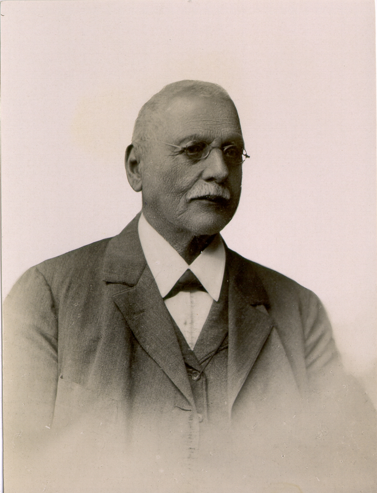 Gustav Ipavec (1831-1908), slovene composer and physician